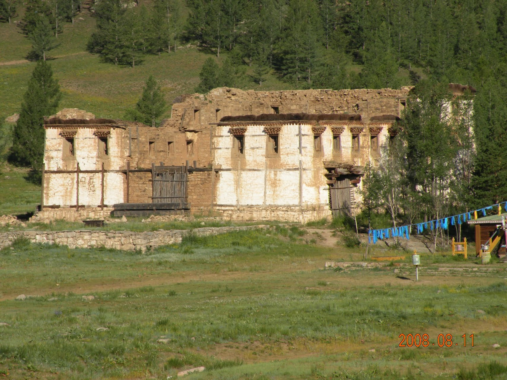 Ruins of Baldan Bereeven Monestary, Khentii Province, Mongolia in 2008